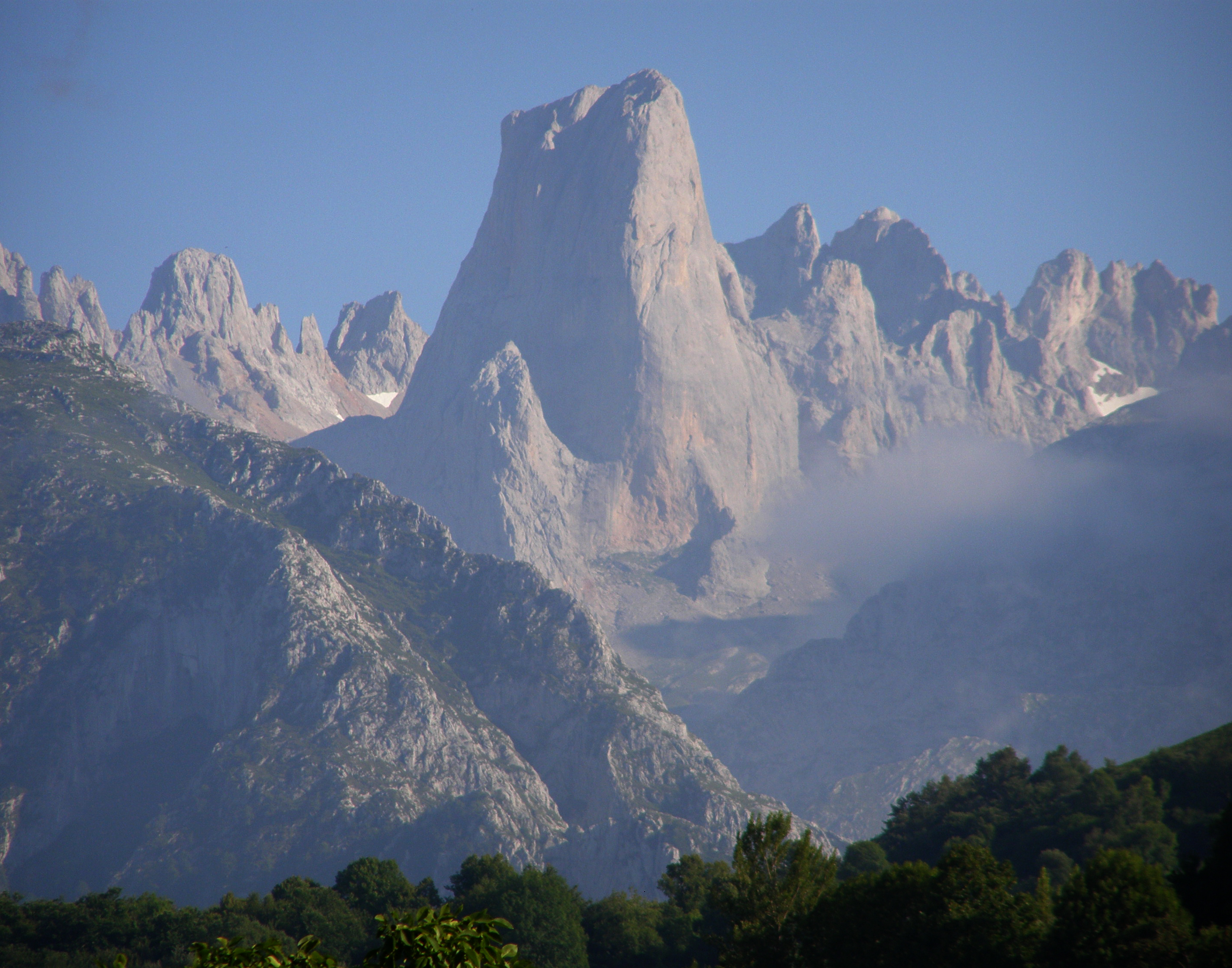 Naranjo de Bulnes -also known as Picu Uriellu- seen from Pozo de la Oración, Cabrales, Asturias.